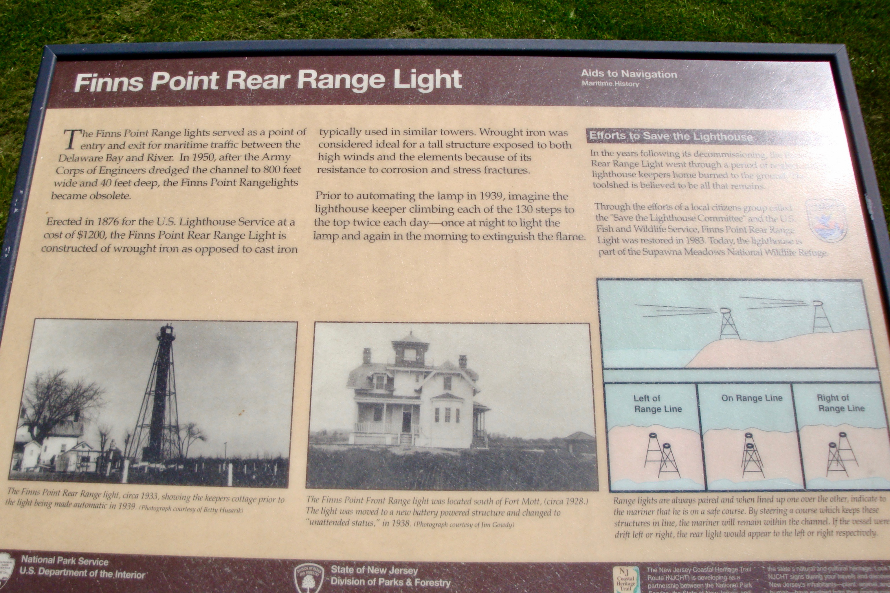 Historical information sign about Finns Point Rear Range Light at the Supawna Meadows National Wildlife Refuge in Pennsville Township, New Jersey.